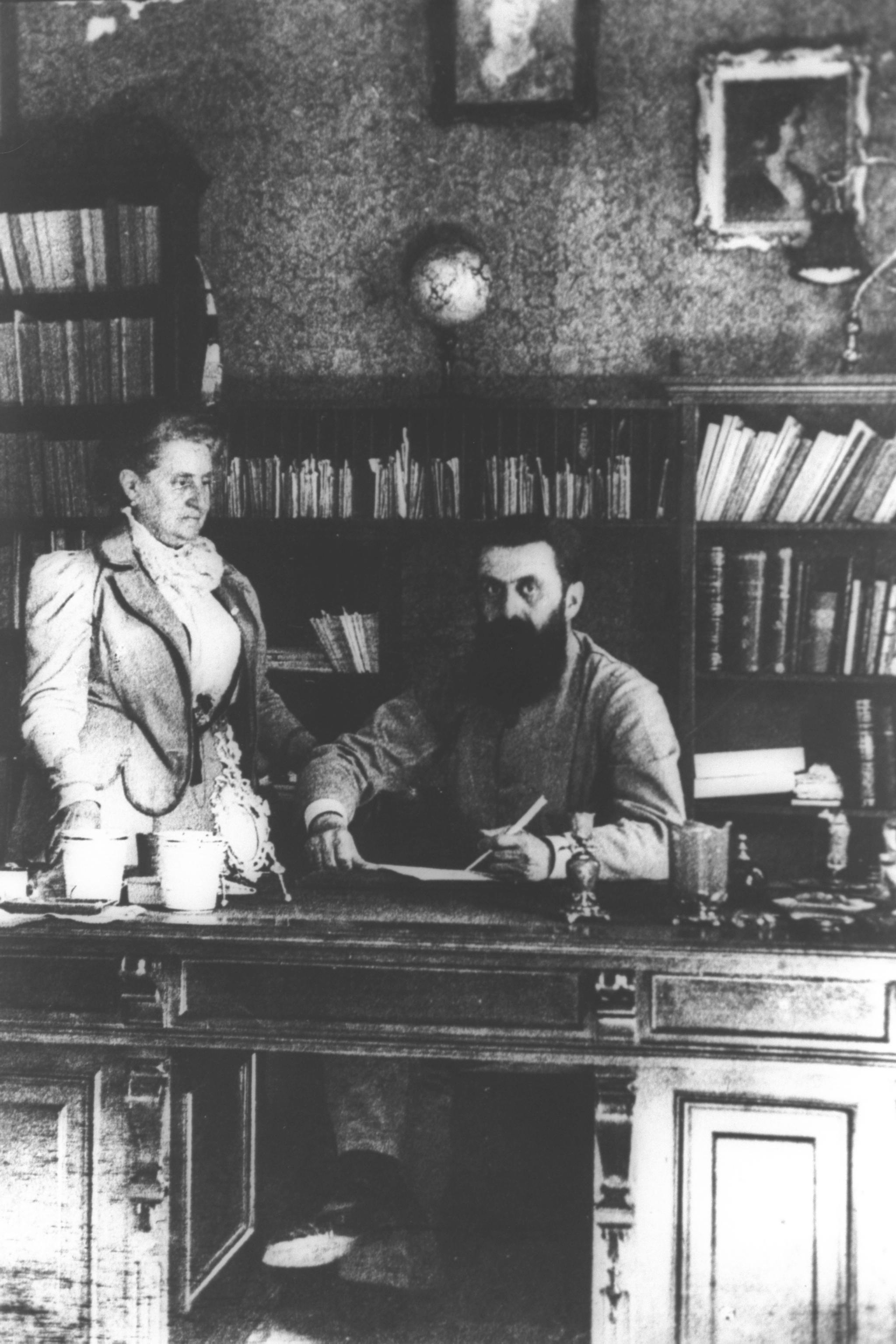 THEODOR HERZL IN HIS STUDY WITH HIS MOTHER, JANETTE BESIDE HIM - 1903. תאודור הרצל בחדר עבודתו ואמו ז'אנט עומדת לידו - שנת 1903.